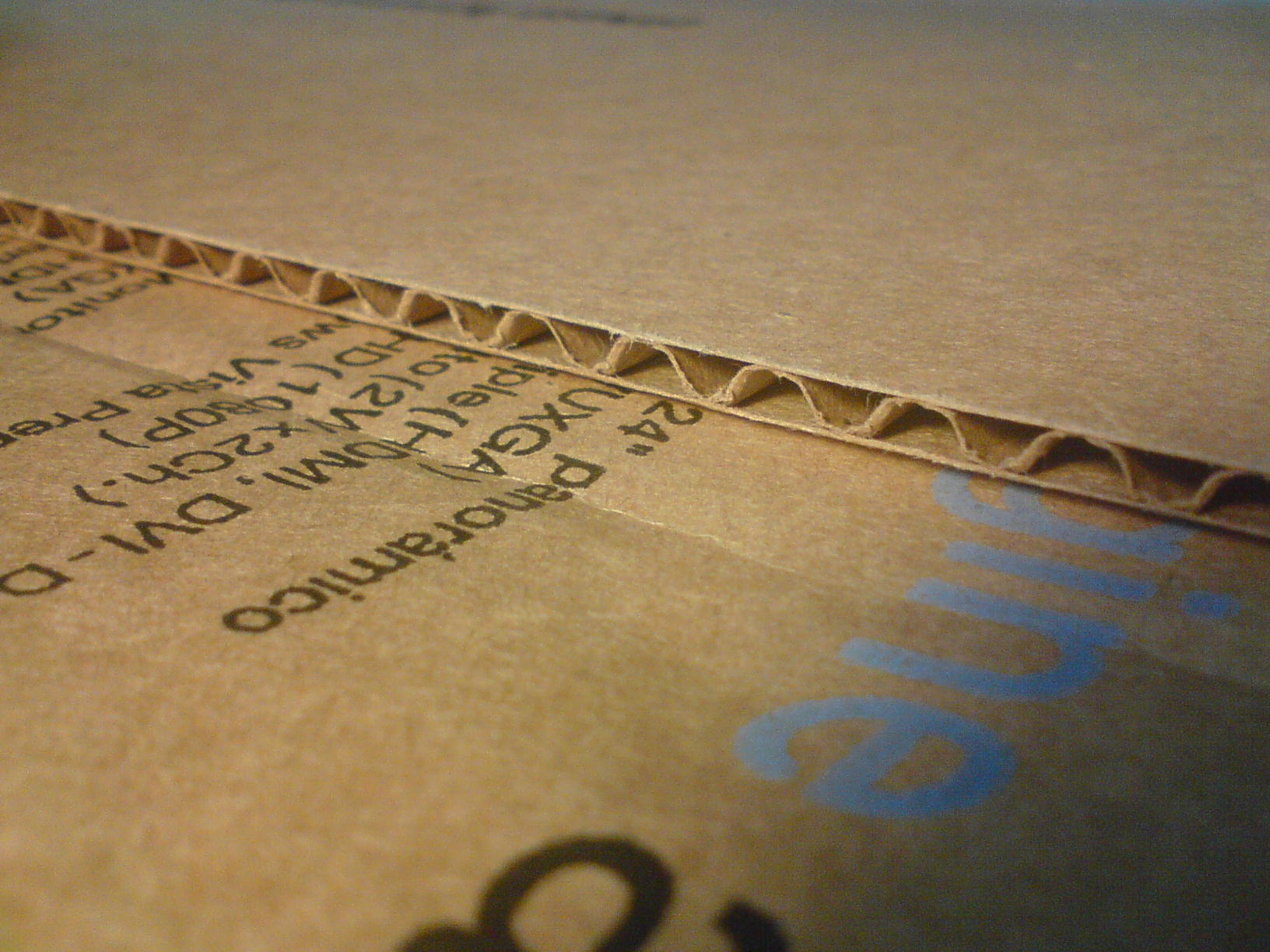 Paperboard